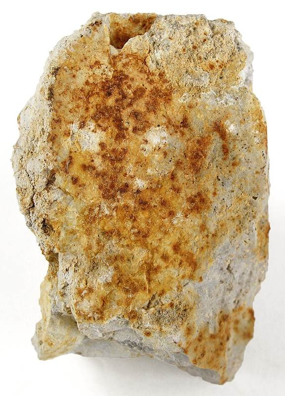 Telluronevskite Locality: Poruba pod Vihorlatom, Southern Vihorlat Mts, Košice Region, Slovakia (Locality at ) Size: 5.1 x 3.5 x 3.2 cm. This specimen is from the type and so far only locality for the species, and shows tiny black grains embedded in quartz. It is a good, rare reference specimen for this species - a bismuth tellurium selenide.